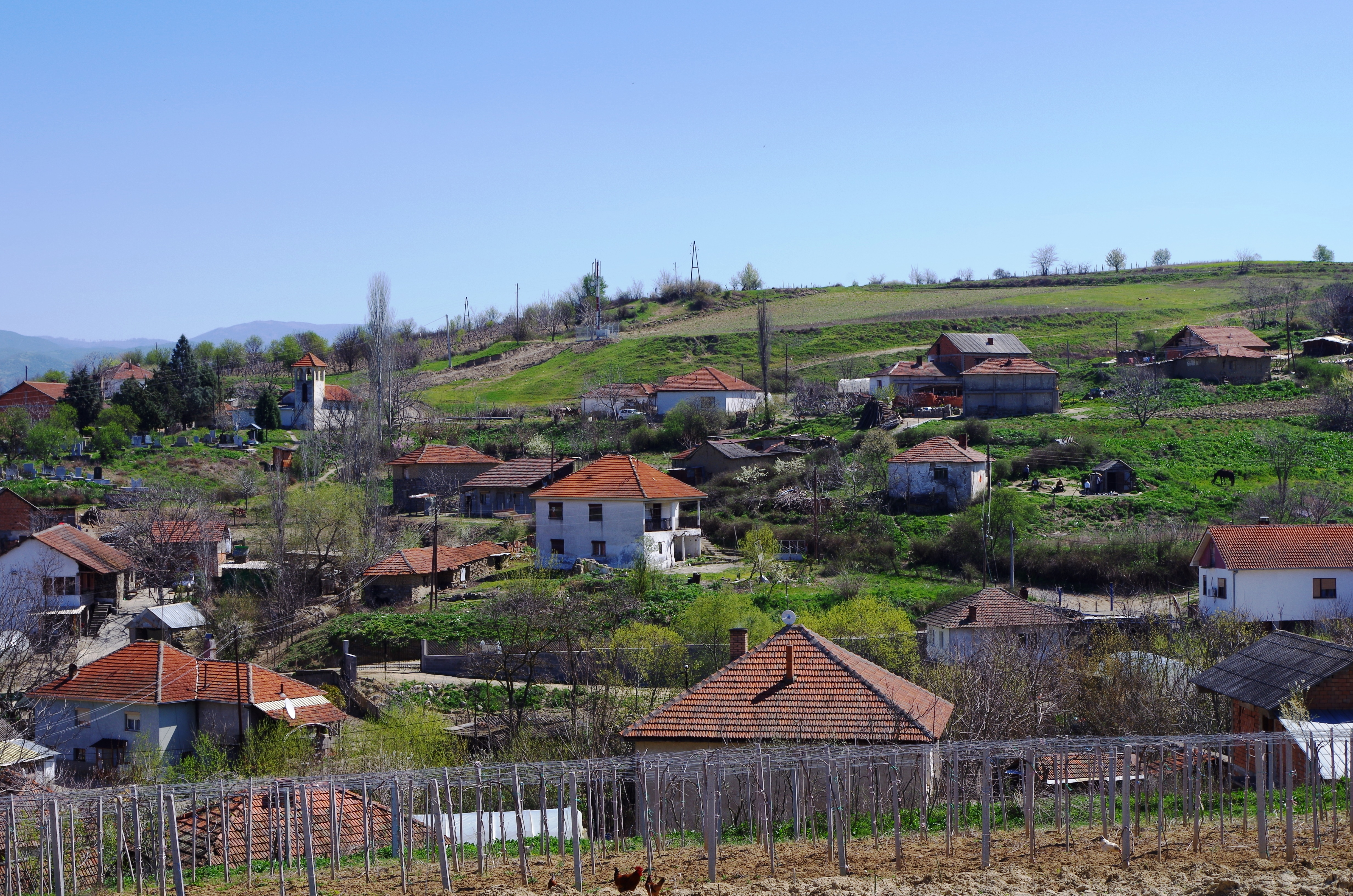 Part of the village Tremnik in Negotino Municipality